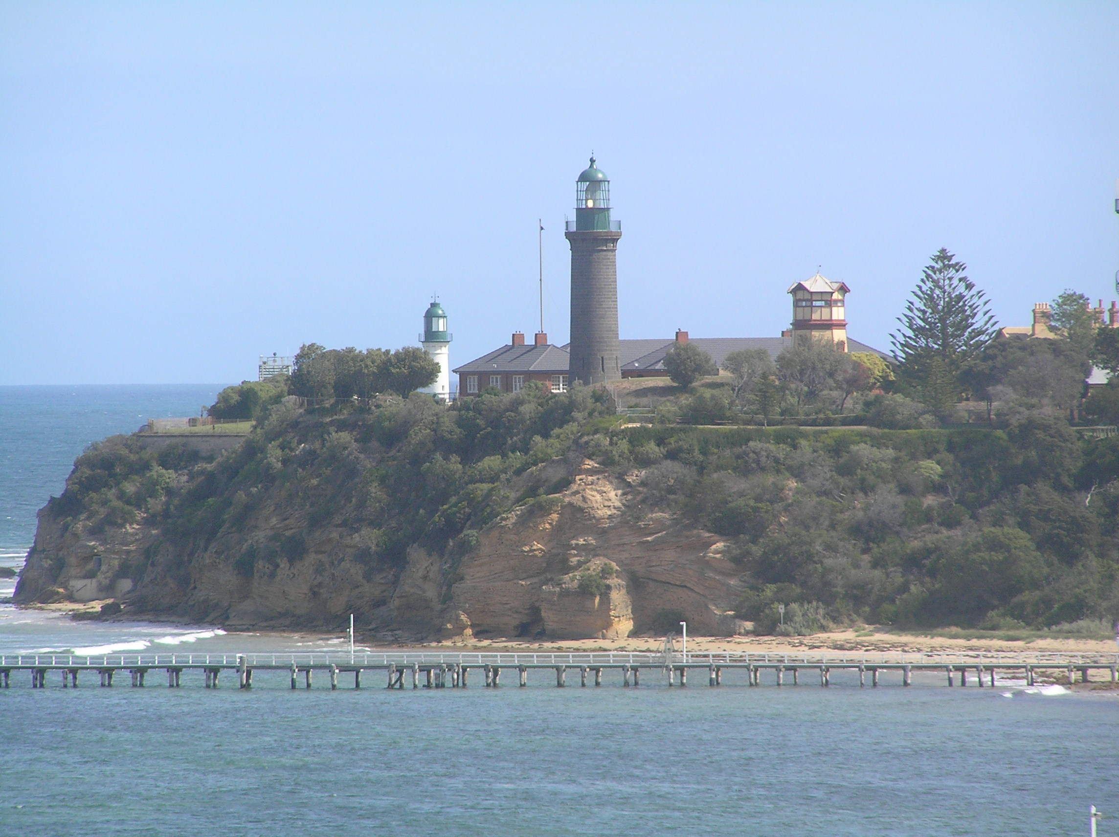 View of the Queenscliff lighthouses - the High Light (centre) with the Low Light to its left.